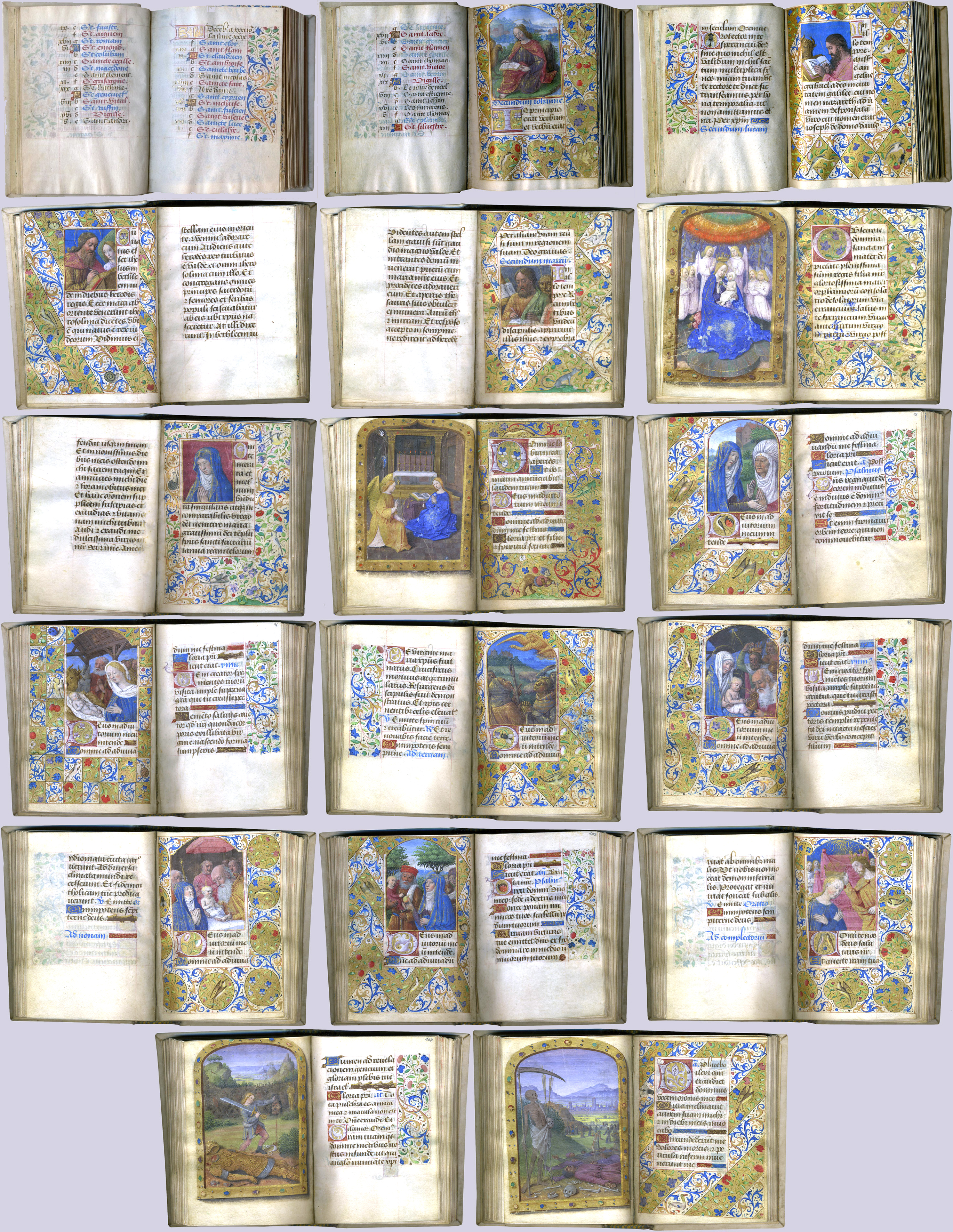 Book of Hours commissioned by lord Francois du Pou, secretary of Francis II, Duke of Brittany, used by dame Jeanne du Pou